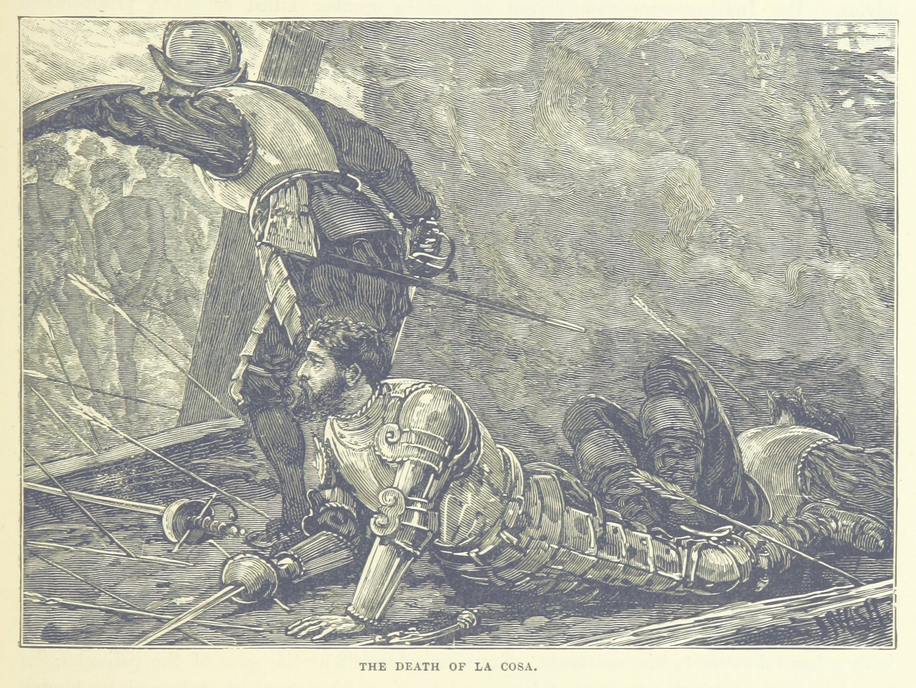 An illustration of the death of Spanish explorer Juan de la Cosa.